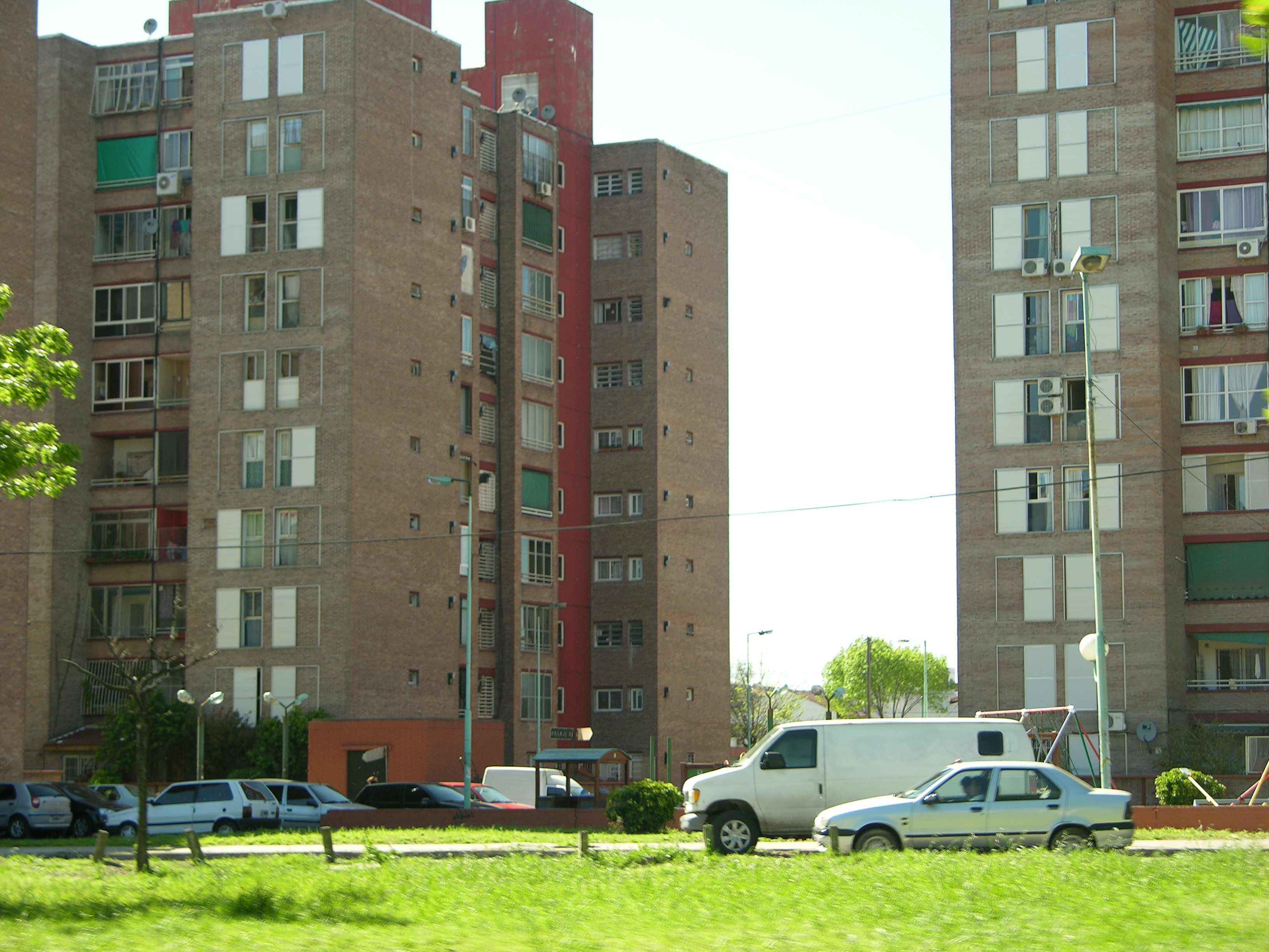 The Cardinal Antonio Samoré housing project, in the Villa Lugano section of Buenos Aires.